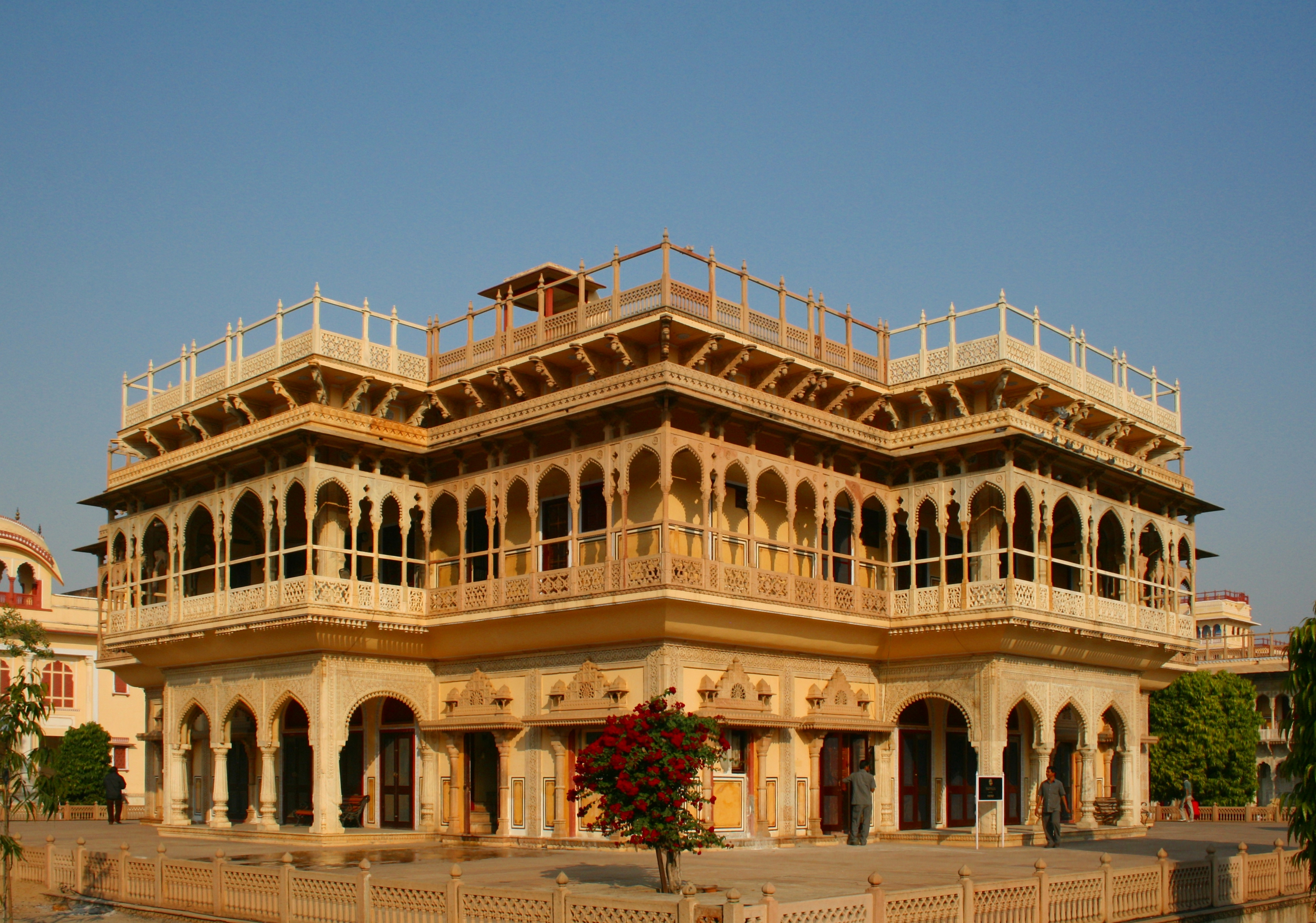 City Palace, Jaipur, India